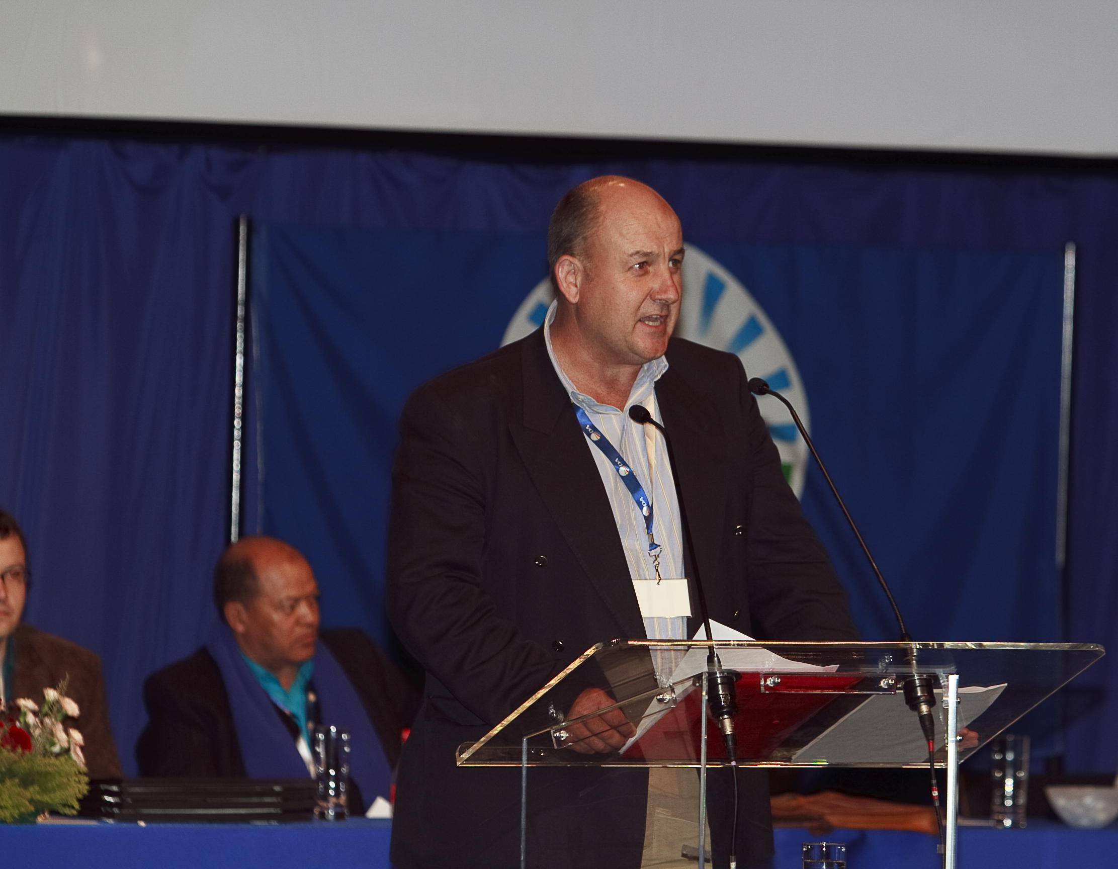 DA Parliamentary Leader Athol Trollip MP